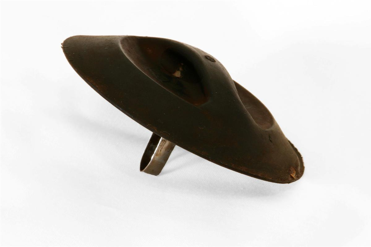 Stopper